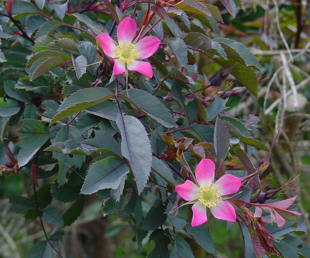 Redleaf Rose